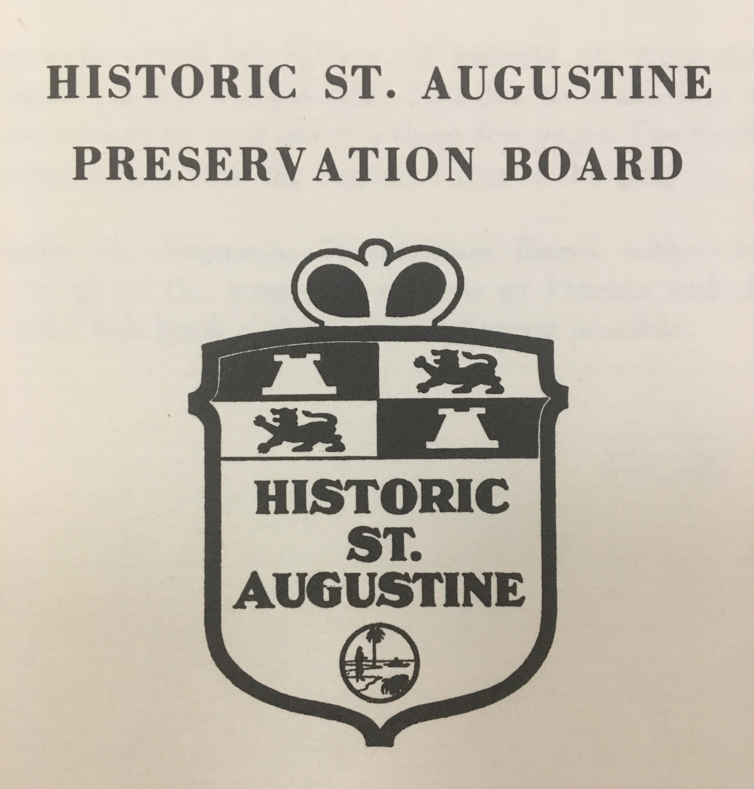 Official logo of the Historic St. Augustine Preservation Board